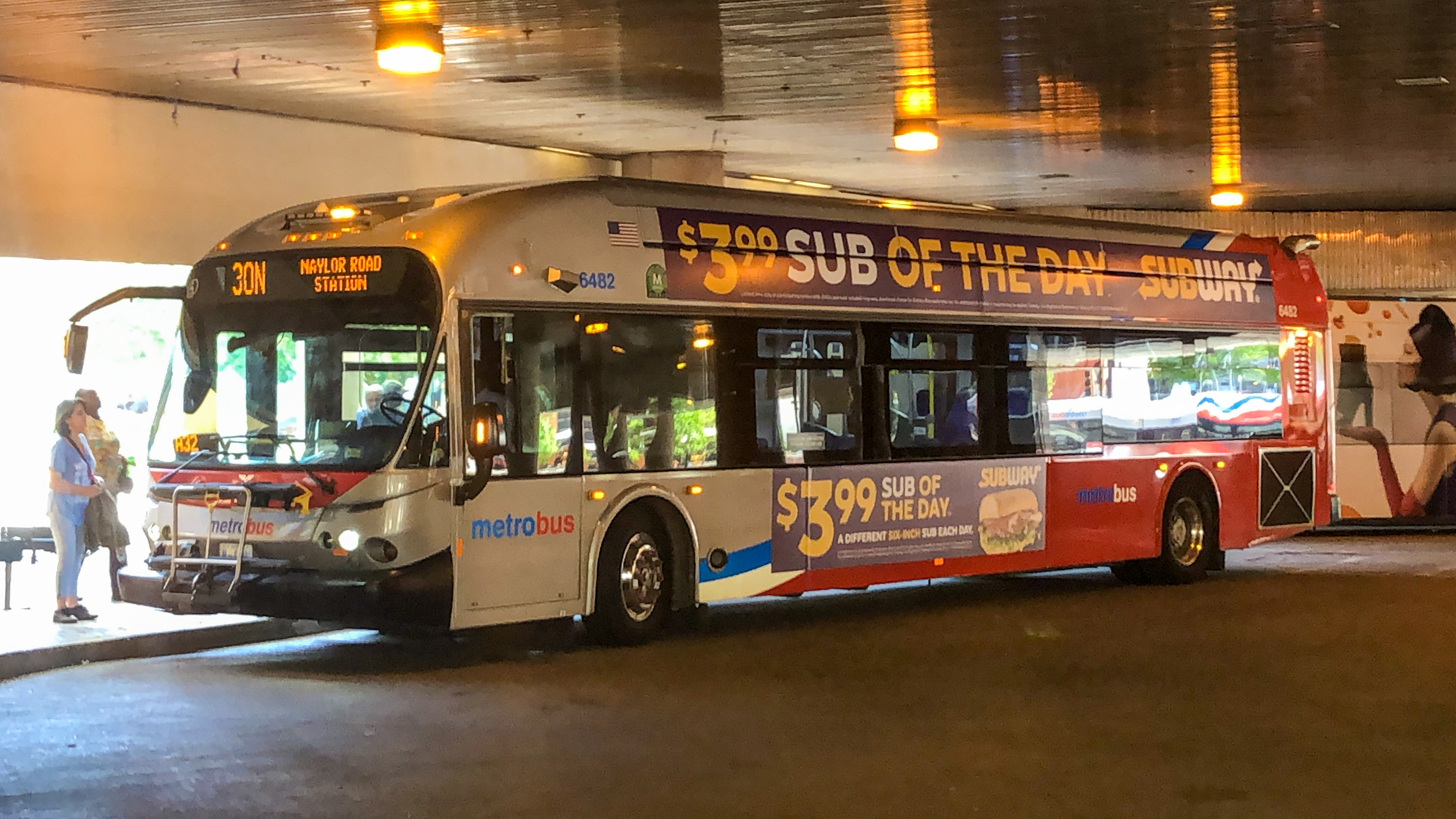 WMATA New Flyer DE40LFA 6482 on Route 30N at Friendship Heights. This bus now operates out of Andrews division from the closed Northern division.